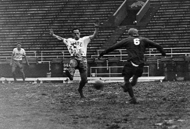 Pitt Panthers soccer team playing in muddy conditions during the first round of the 1965 NCAA Division I Men's Soccer Championship at Pitt Stadium against East Stroudsburg. East Stroudburg would prevail 2-0.